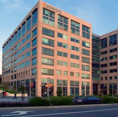 Genesys Headquarters. 2001 Junipero Serra Blvd. Daly City, CA 94014